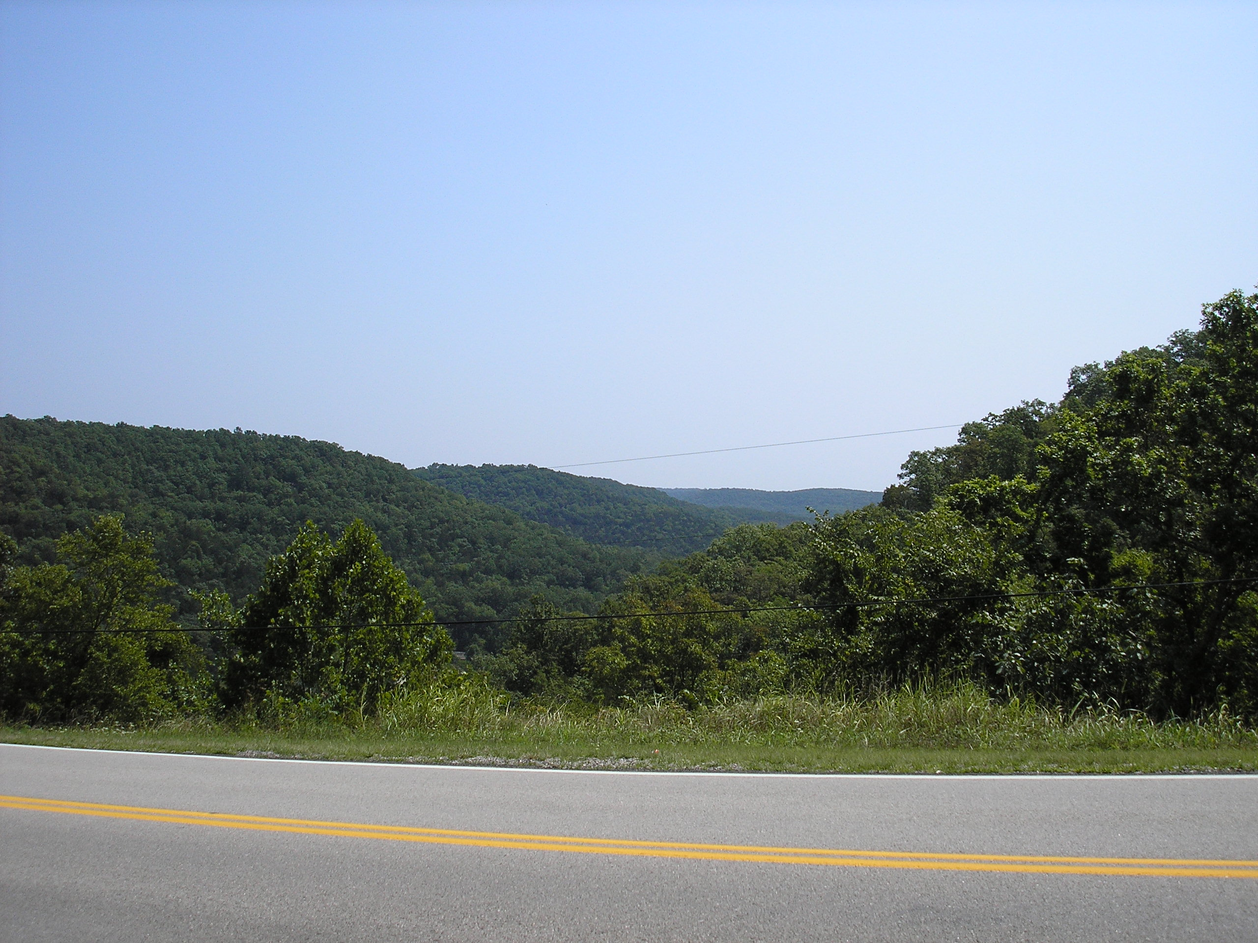 Picture of the Ozark Mountains from Missouri State Highway 112 near Roaring River State Park. Self-taken photo.